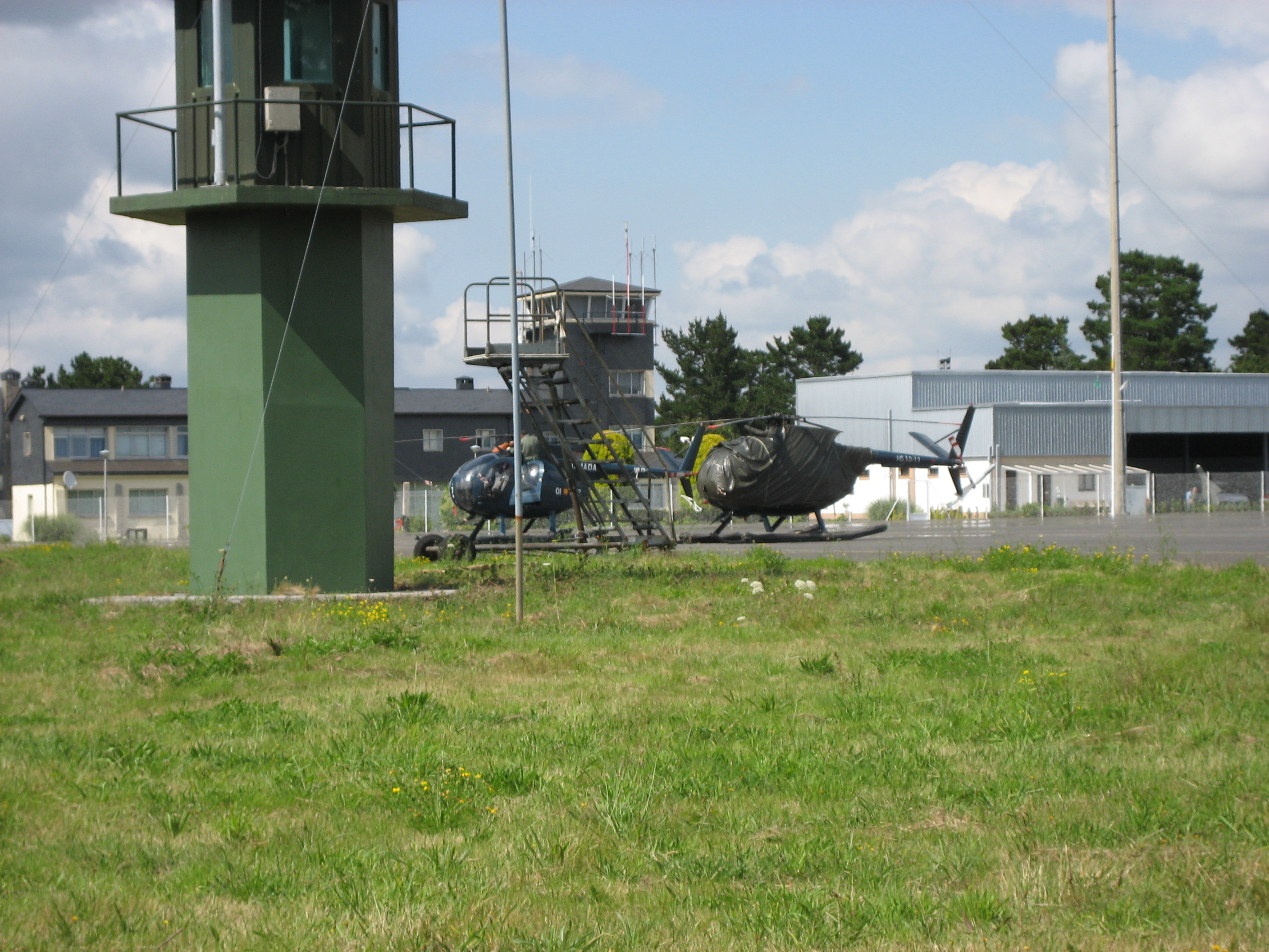 Two OH-6 Cayuse observation helicopters of the Spanish Navy at the military air base adjoining the airport at Santiago de Compostela, Spain. 12th of July 2008.